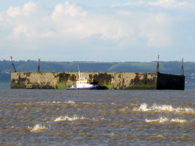 Phoenix Caisson Part of the Mulberry harbours that were assembled for D-Day in June 1944. The caissons were the main protective breakwater for the pier and over 200 were constructed filled with compressed air and designed to sink or float as was necessary. This one was towed to the East Road from its construction point in the Thames then sunk so as to avoid detection to be resurrected (Hence the name) when needed on D-Day. Unfortunately this one got stuck in the silt and sand on the sea floor and has remained there ever since becoming visible at low tide. A low spring has enabled me to walk into the square and take the image using a zoom to get a close up view.